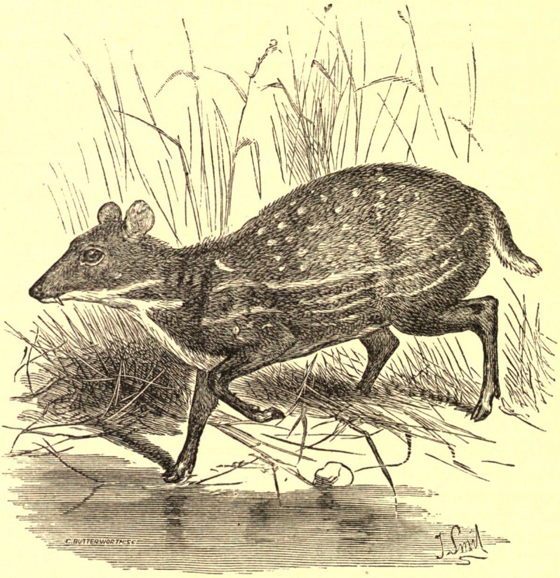 Drawing of African Water Chevrotain (Dorcatherium aquaticum).